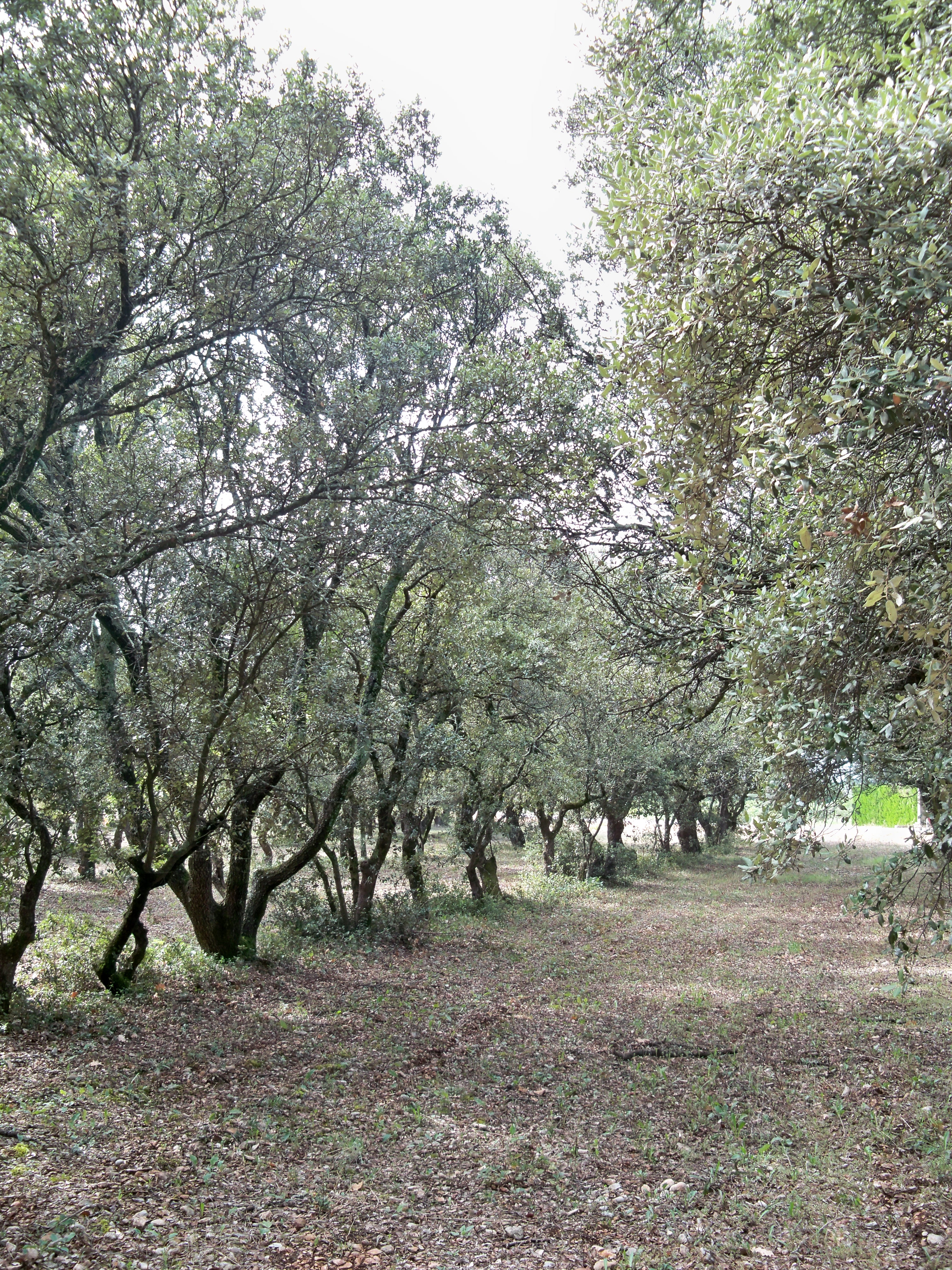 truffle field in Vaucluse, France